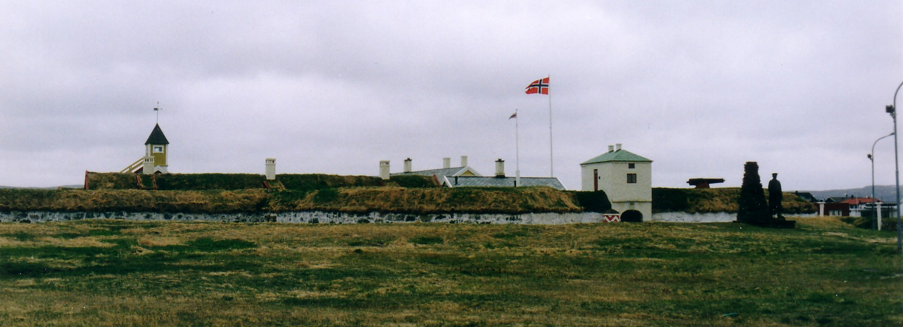 Vardøhus Fortress of AD 1738 in Vardø, Finnmark, North Norway